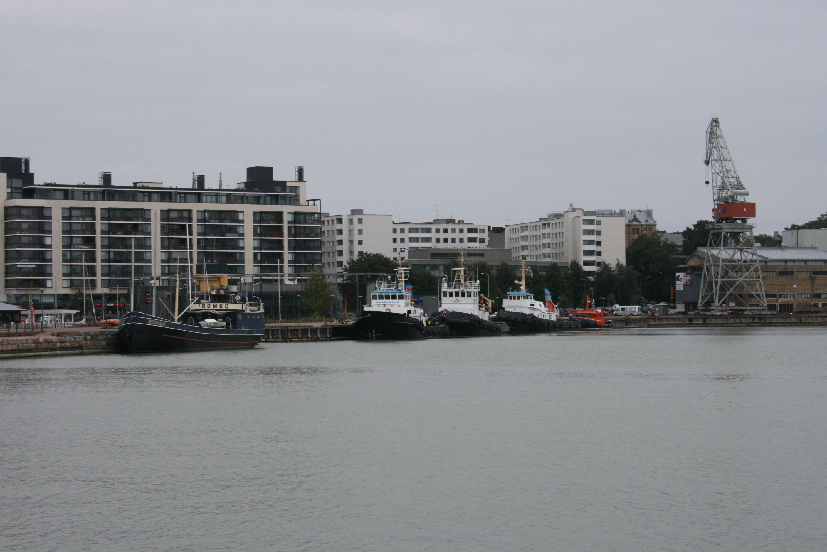 Alfons Håkans Tugs in Helsinki